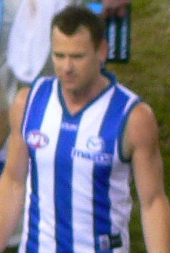 Adam Simpson, Australian rules footballer